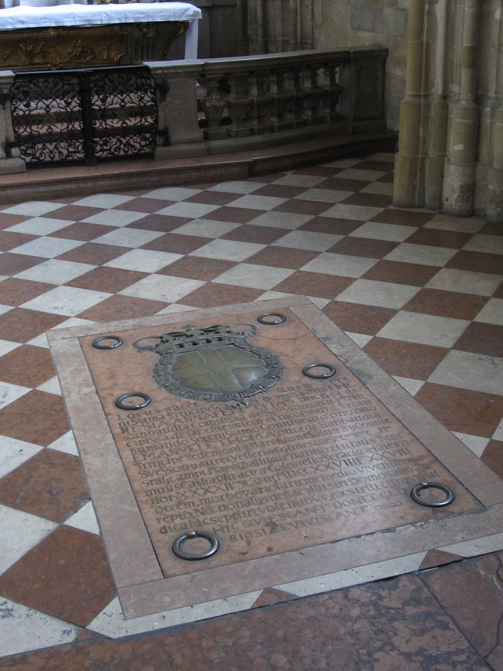 St. Stephen's Cathedral, Vienna